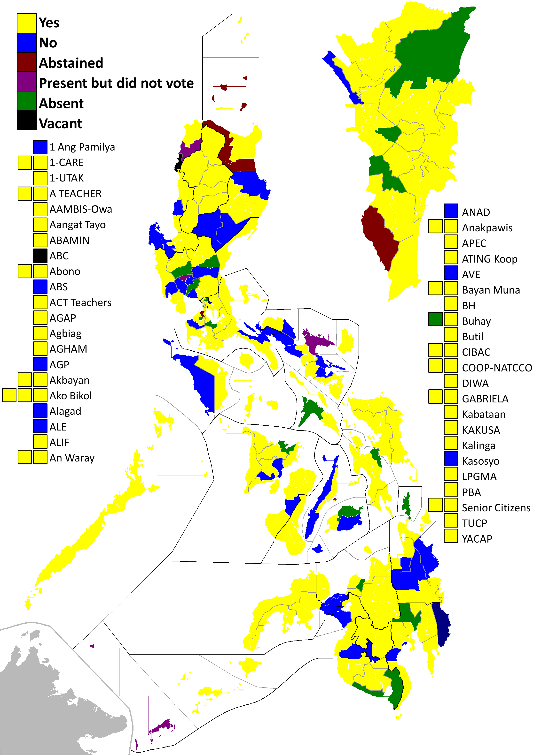 Voting by the House of Representatives of the Philippines on the Impeachment of Merceditas Gutierrez.